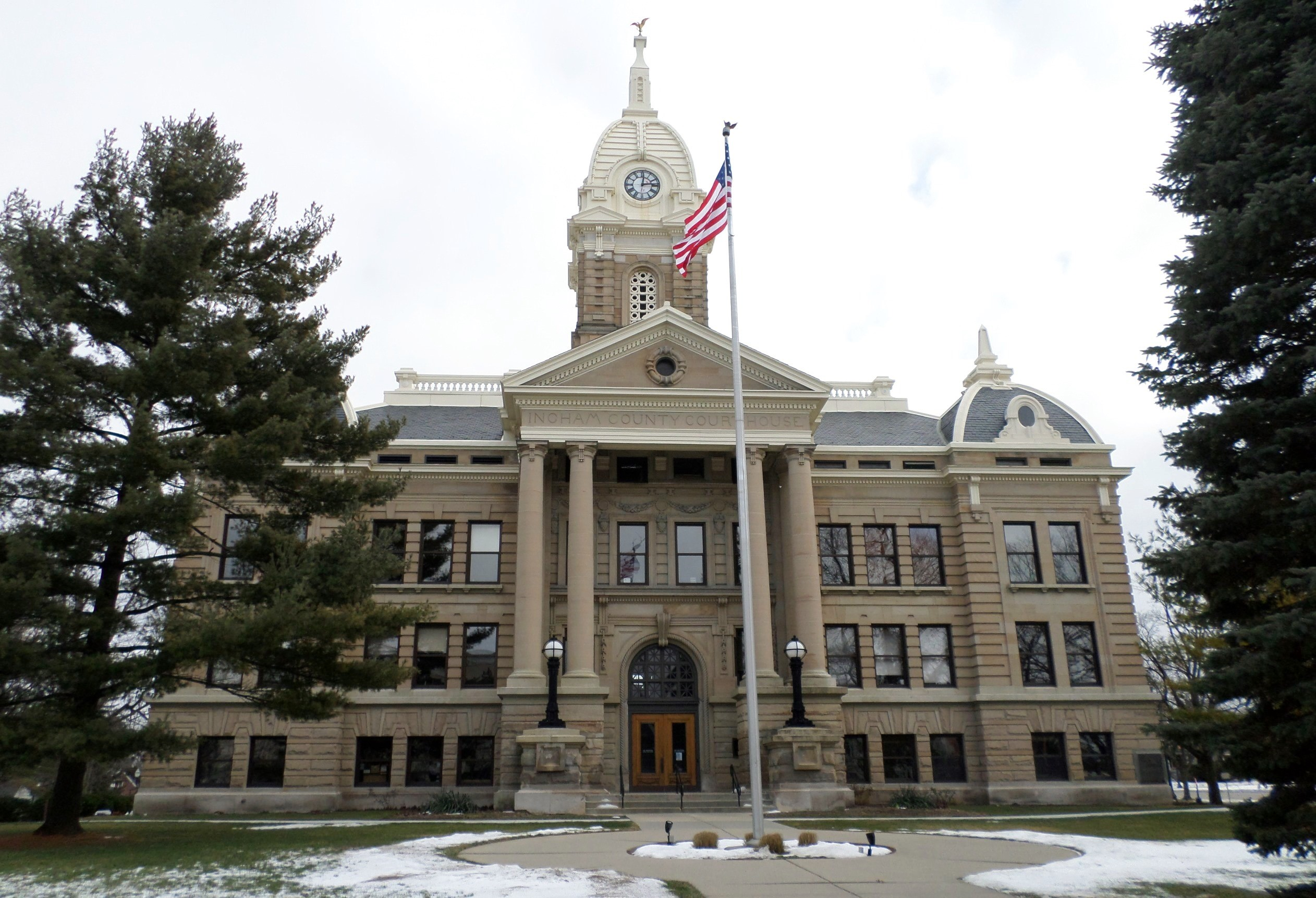 The Ingham County Courthouse, located at 315 S Jefferson St, Mason, MI. The building is listed on the National Register of Historic Places.